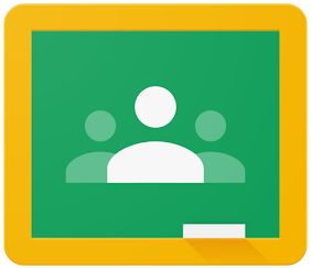 Original Google Classroom logo. Google Classroom is a feature of the Google Apps for Education suite.